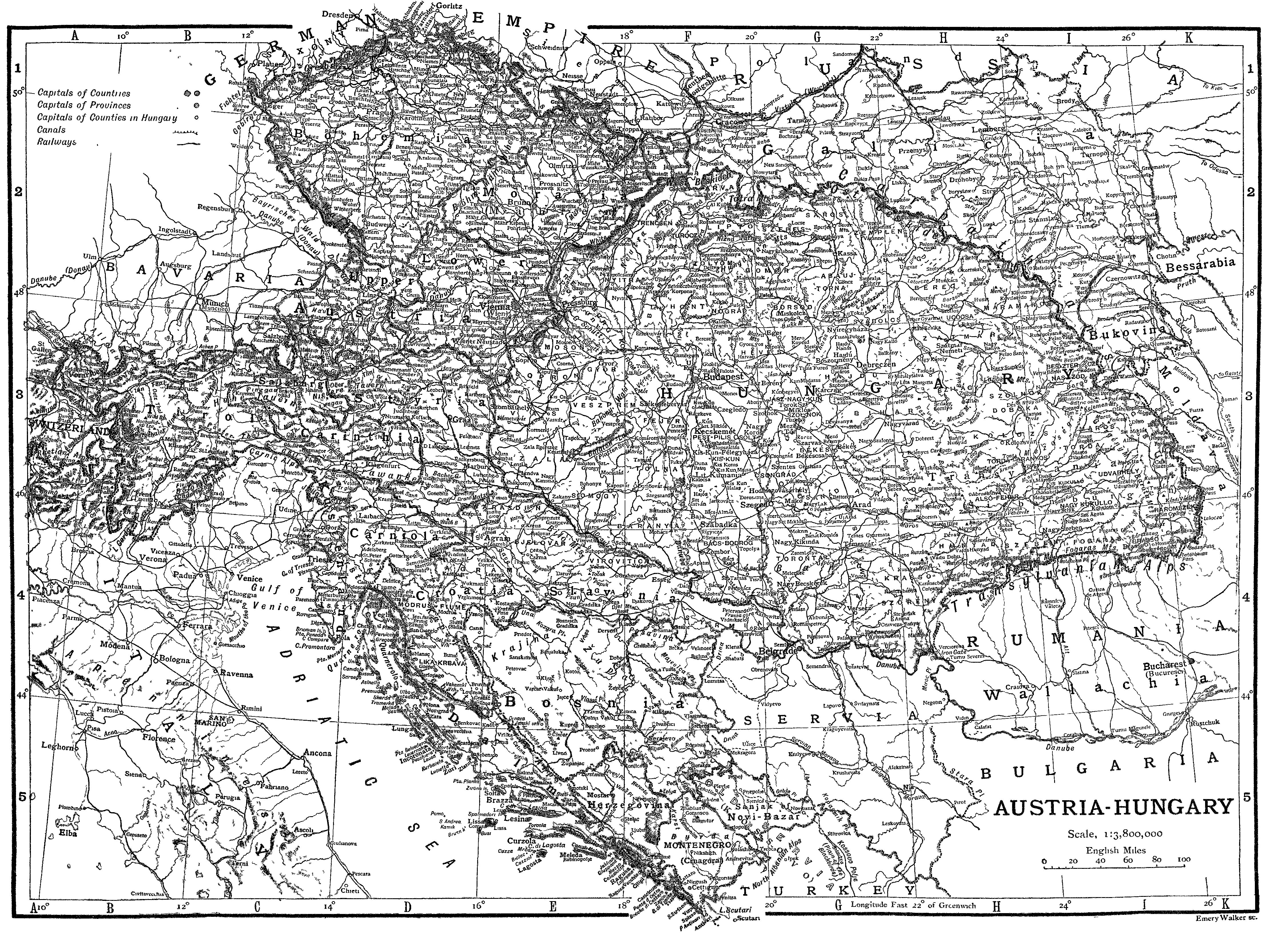 Railway map of the Austro-Hungarian Empire.